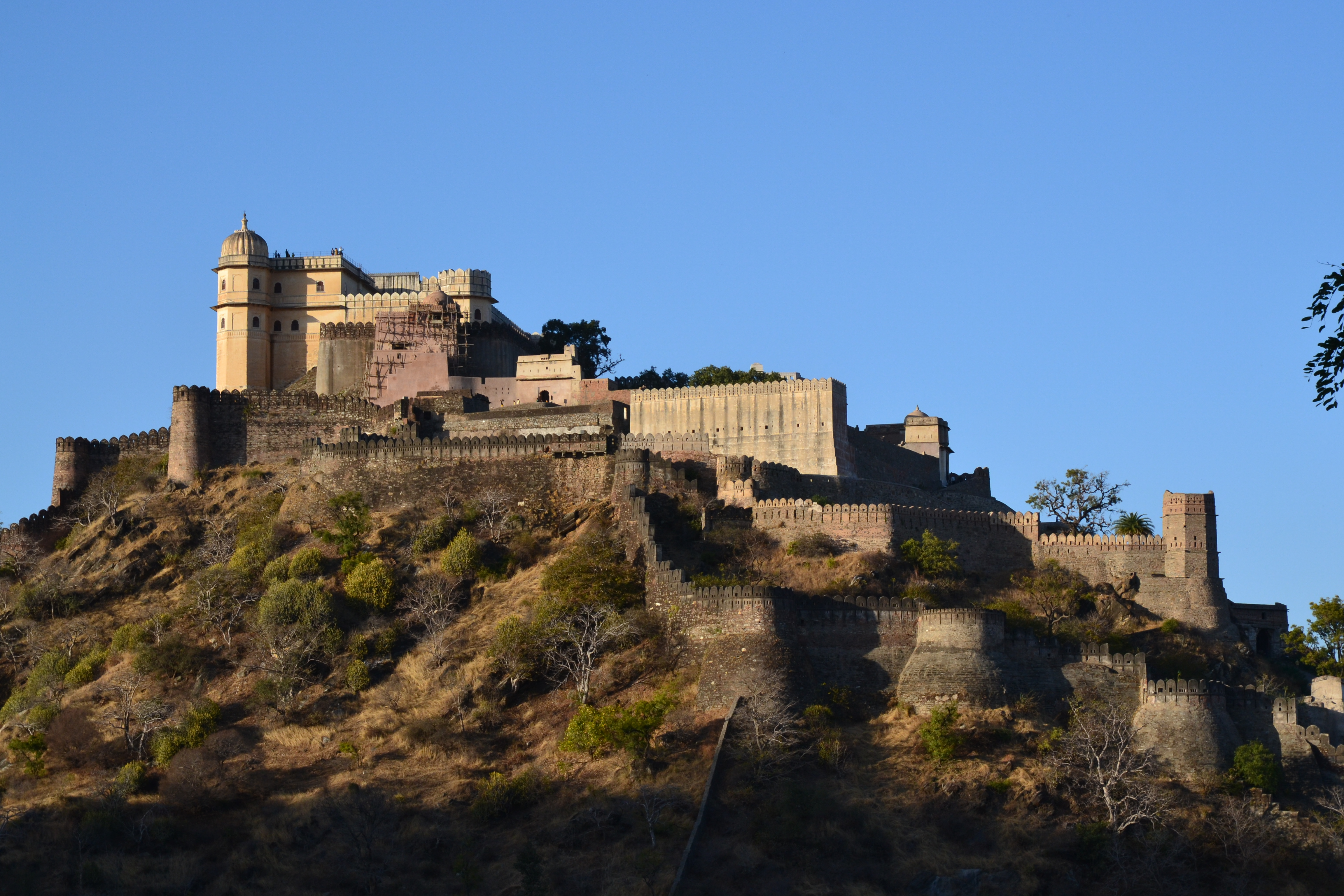 Kumbalgarh fort from a distance